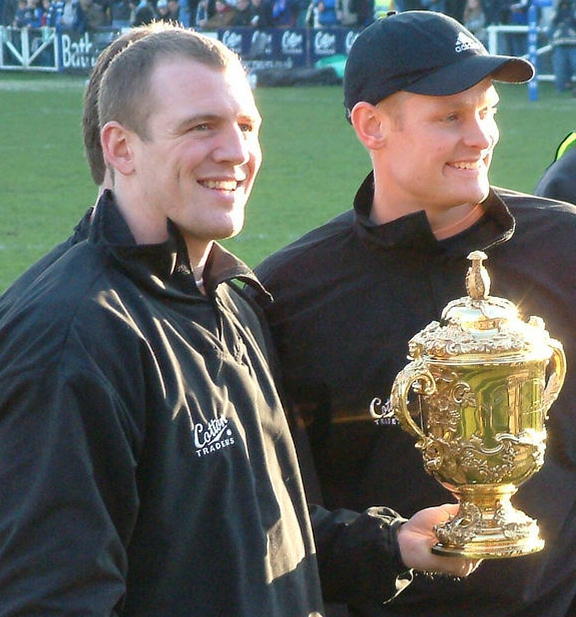 The Rugby World Cup trophy - the William Webb Ellis Cup being held by Mike Tindall. Iain Balshaw is on the right.